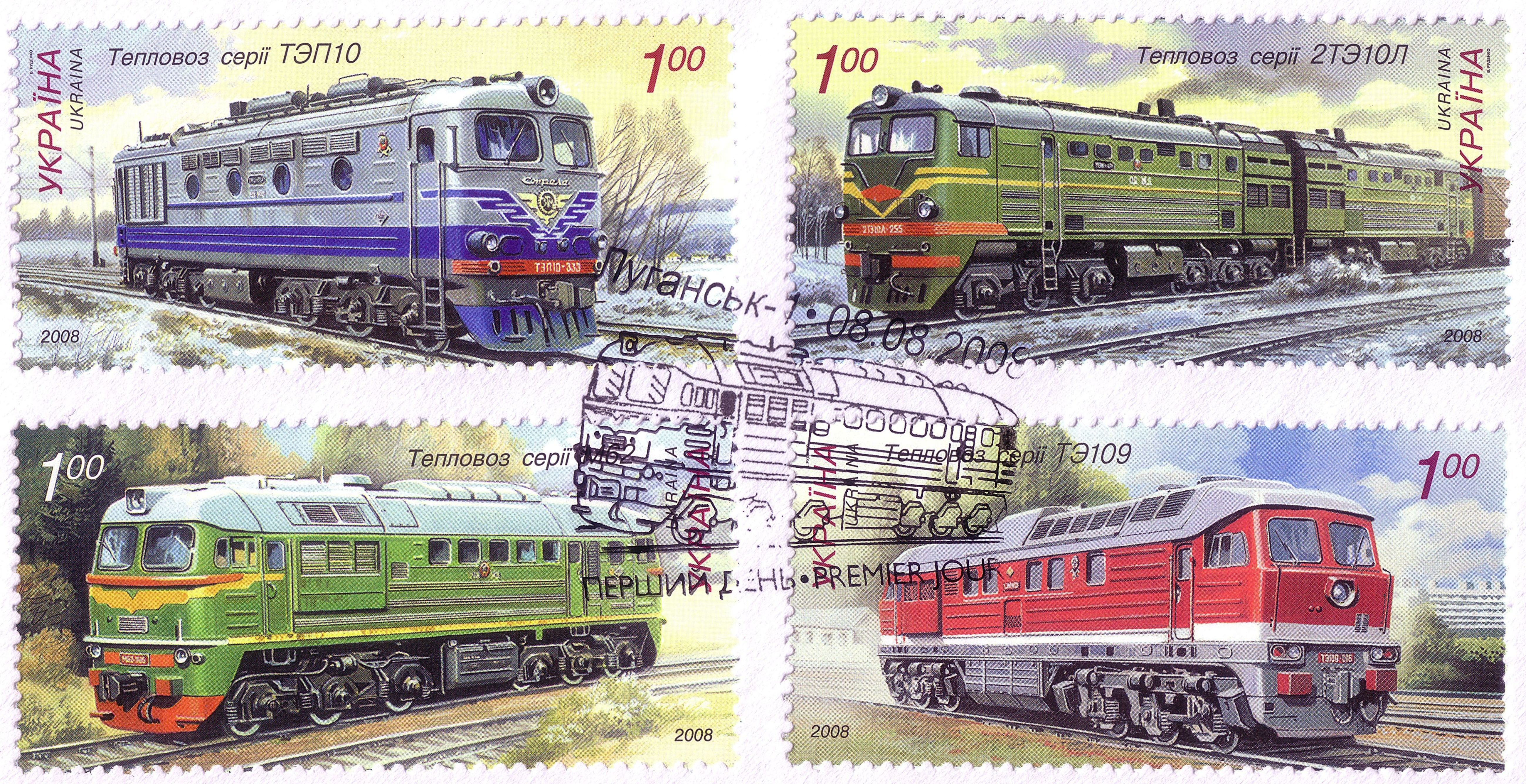 Sheet of stamps. Luganskteplovoz diesel locomotive TE model, first day postmark, Ukraine stamps, 2008.